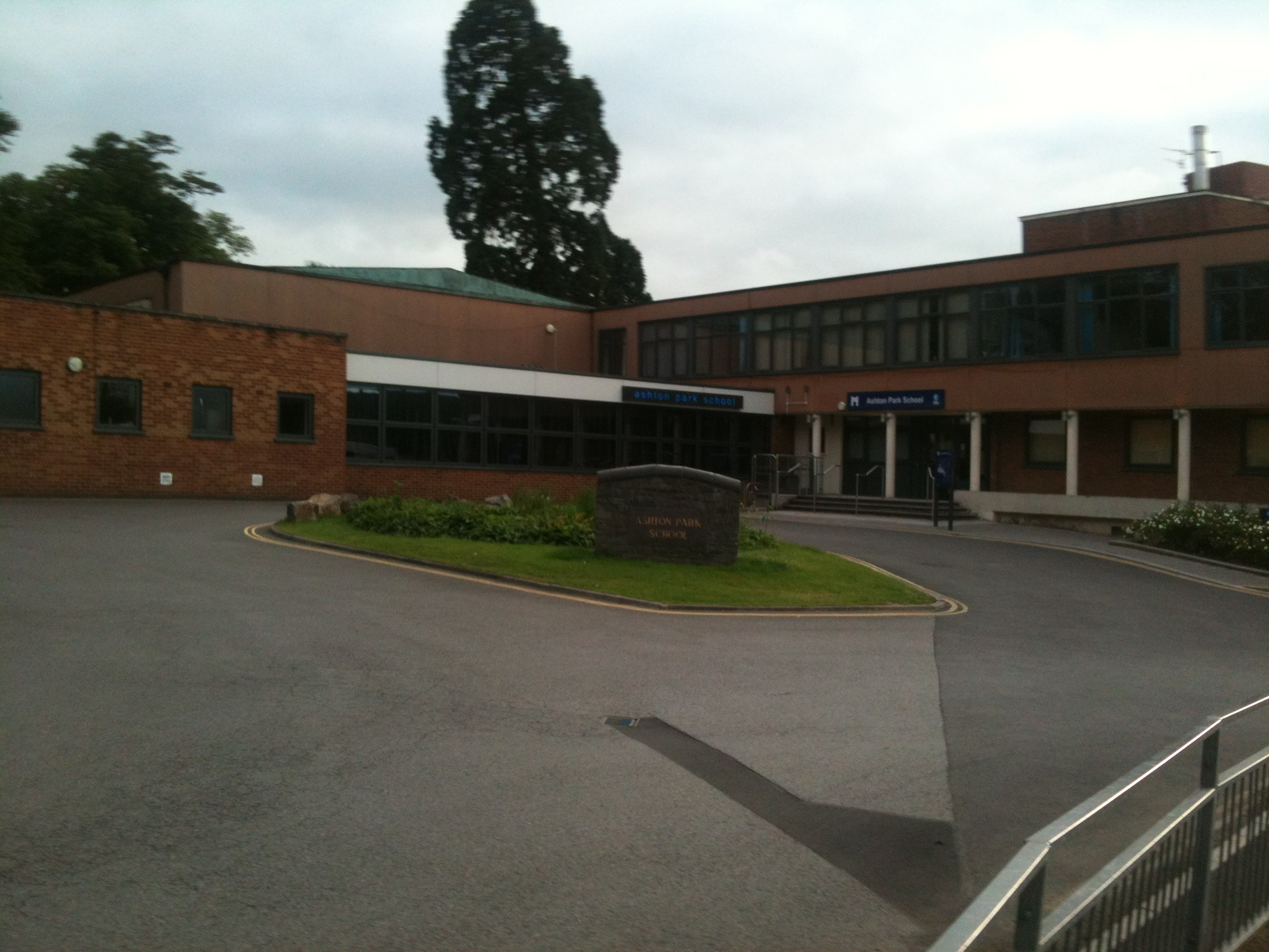 Main entrance of Ashton Park School, Bristol